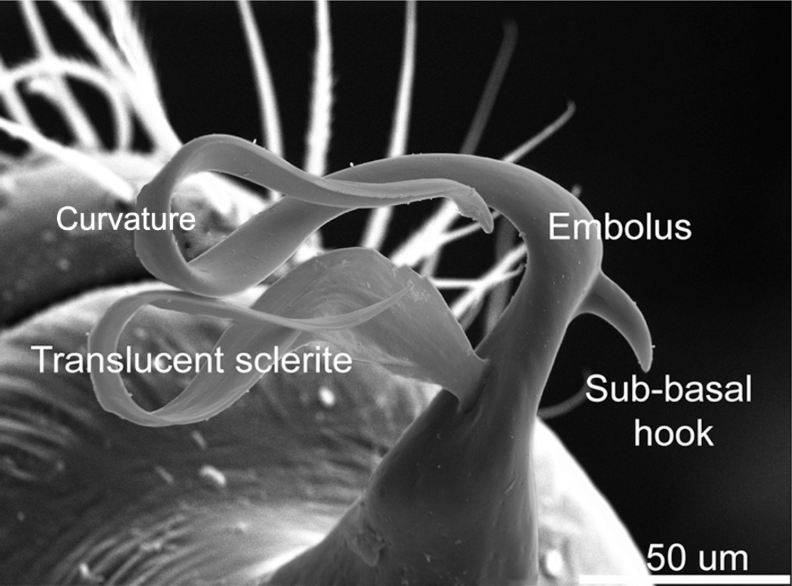 Unicorn catleyi, male, SEM image of entire embolus and translucent sclerite.